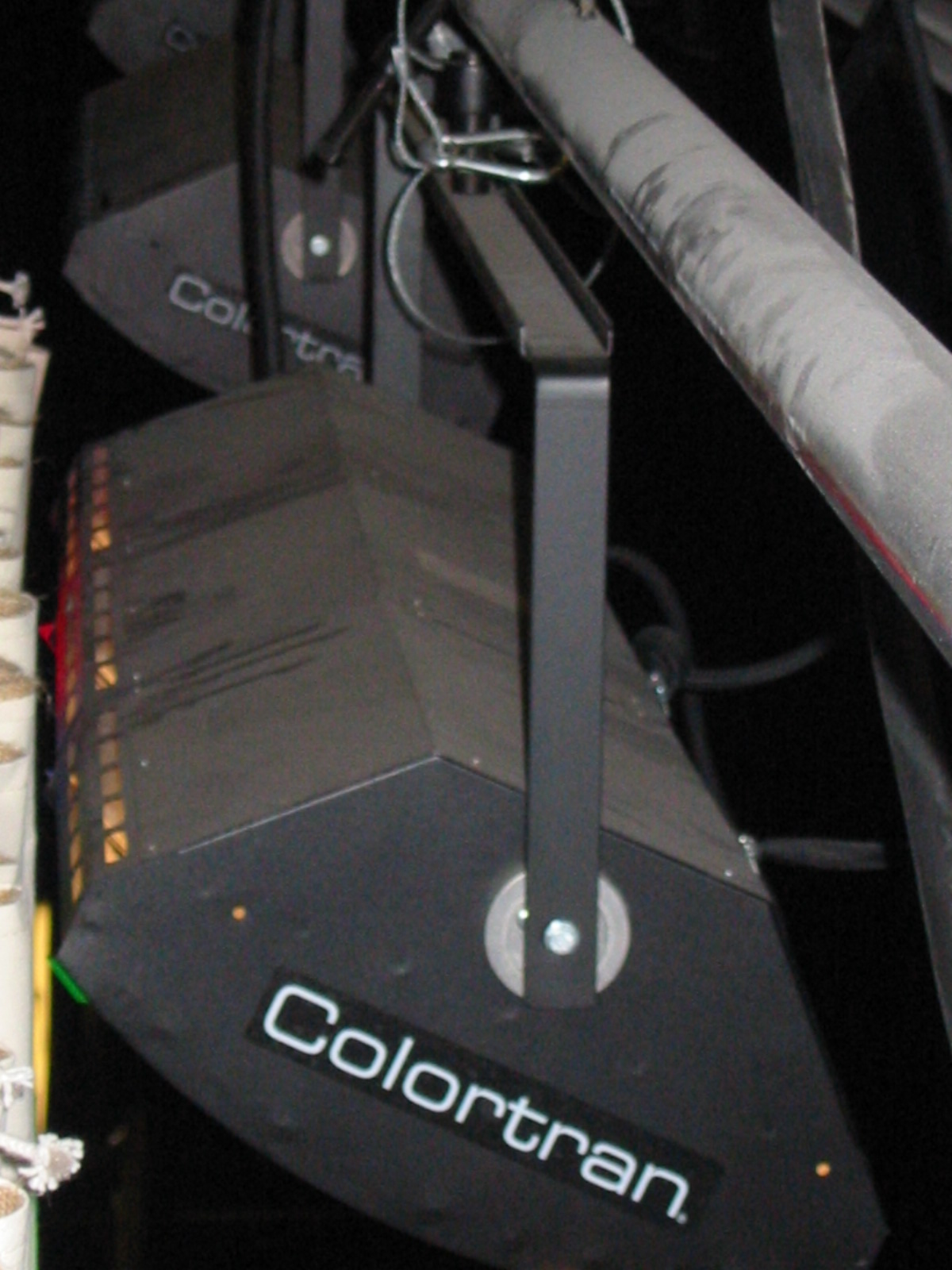 Horizon bins are floodlights on the horizon cloth, traditionally known as cyclorama lights